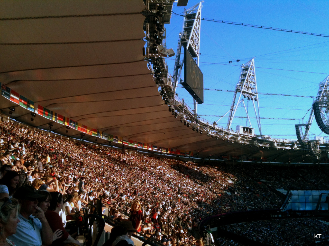 At the technical rehearsal of the Opening Ceremony of the 2012 London Olympics.